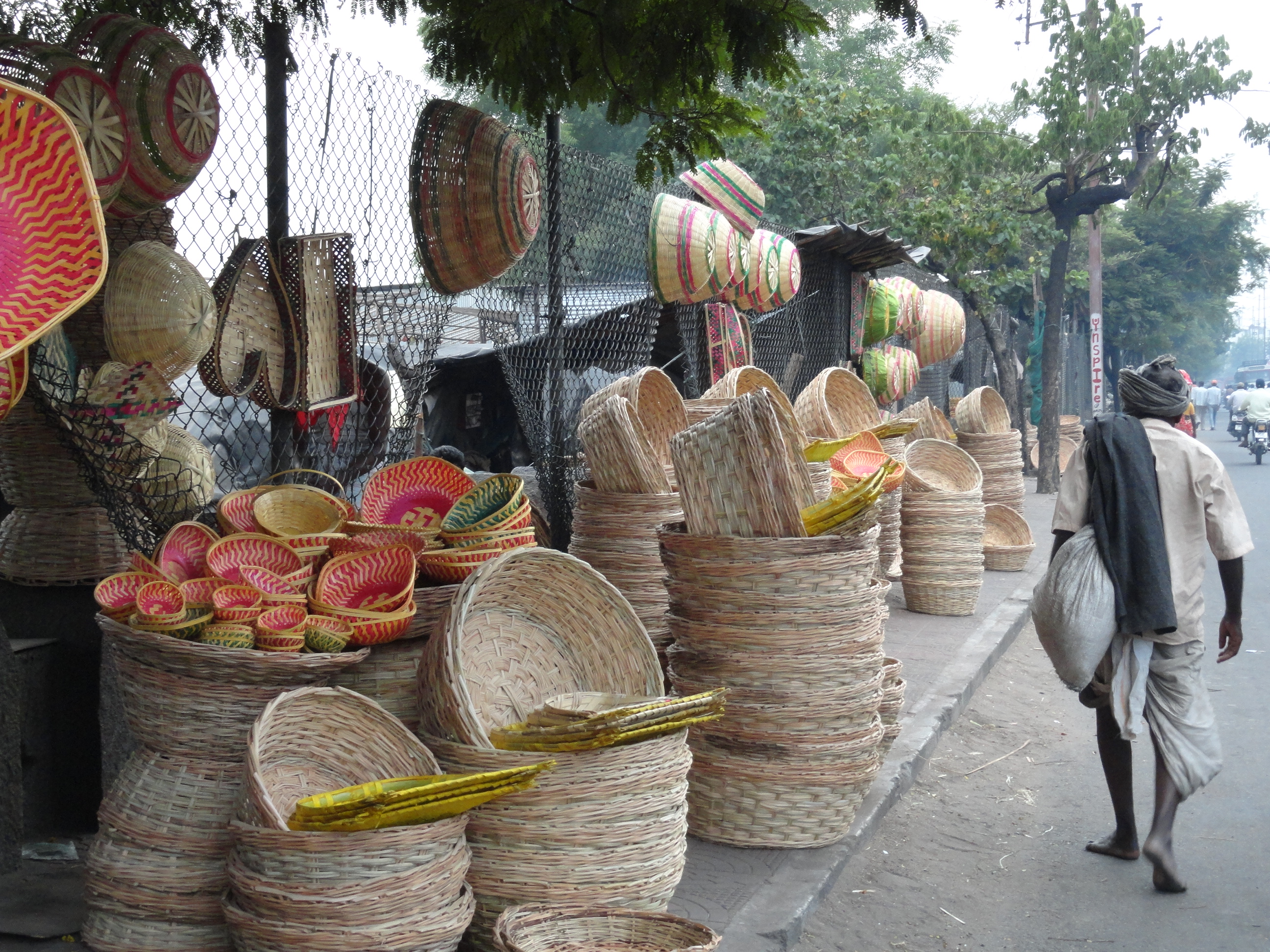 bamboo articles artistic for sale on road side: picture taken near chadarghat. hyderabad.